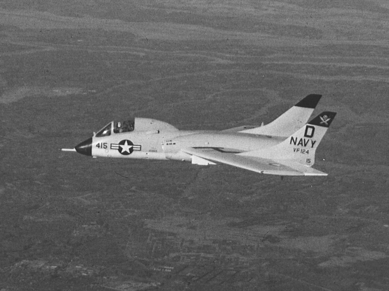 A U.S. Navy Vought F7U-3 Cutlass of Fighter Squadron VF-124 "Stingrays" in flight. VF-124 was assigned to Carrier Air Group 12 (CVG-12) aboard the aircraft carrier USS Hancock (CVA-19) for a deployment to the Western Pacific from 10 August 1955 to 15 March 1956.